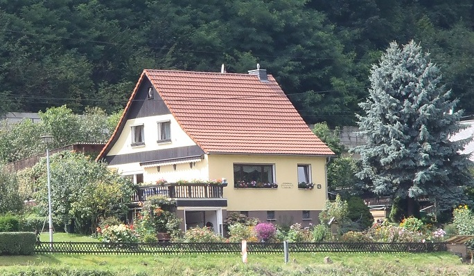 Typical EW58 house in eastern Germany (former German Democratic Republic) with typical user customizations such as the terrace.